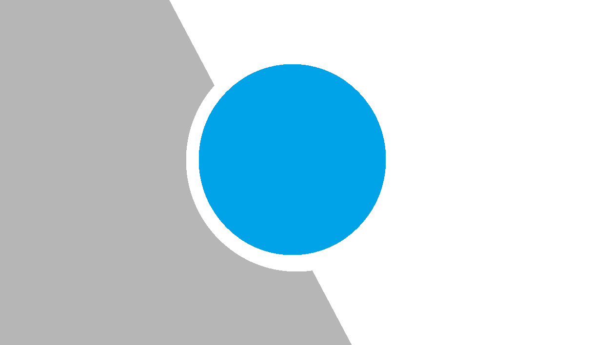 Bandera de Marte. La bandera de Marte es una bandera tricolor empleada para representar al planeta Marte. Sin ser oficial en ningún sentido legal, ha sido aprobada por la Mars Society y la Sociedad Planetaria, e incluso ha viajado al espacio, llevada a órbita cargada por el transbordador espacial Discovery por el astronauta John Mace Grunsfeld en la misión espacial STS-103, esta bandera representa la "futura historia" de Marte. La barra roja, situada la más cercana al mástil, simboliza Marte tal y como es ahora. El verde y el azul simbolizan etapas en la posible terraformación de Marte. La popular Trilogía marciana de Kim Stanley Robinson: Marte Rojo, Marte Verde, y Marte Azul, fue la base para la concepción de la bandera. La bandera de Marte ondea sobre la Flashline Mars Arctic Research Station (FMARS) en la Isla Devon, Canadá.